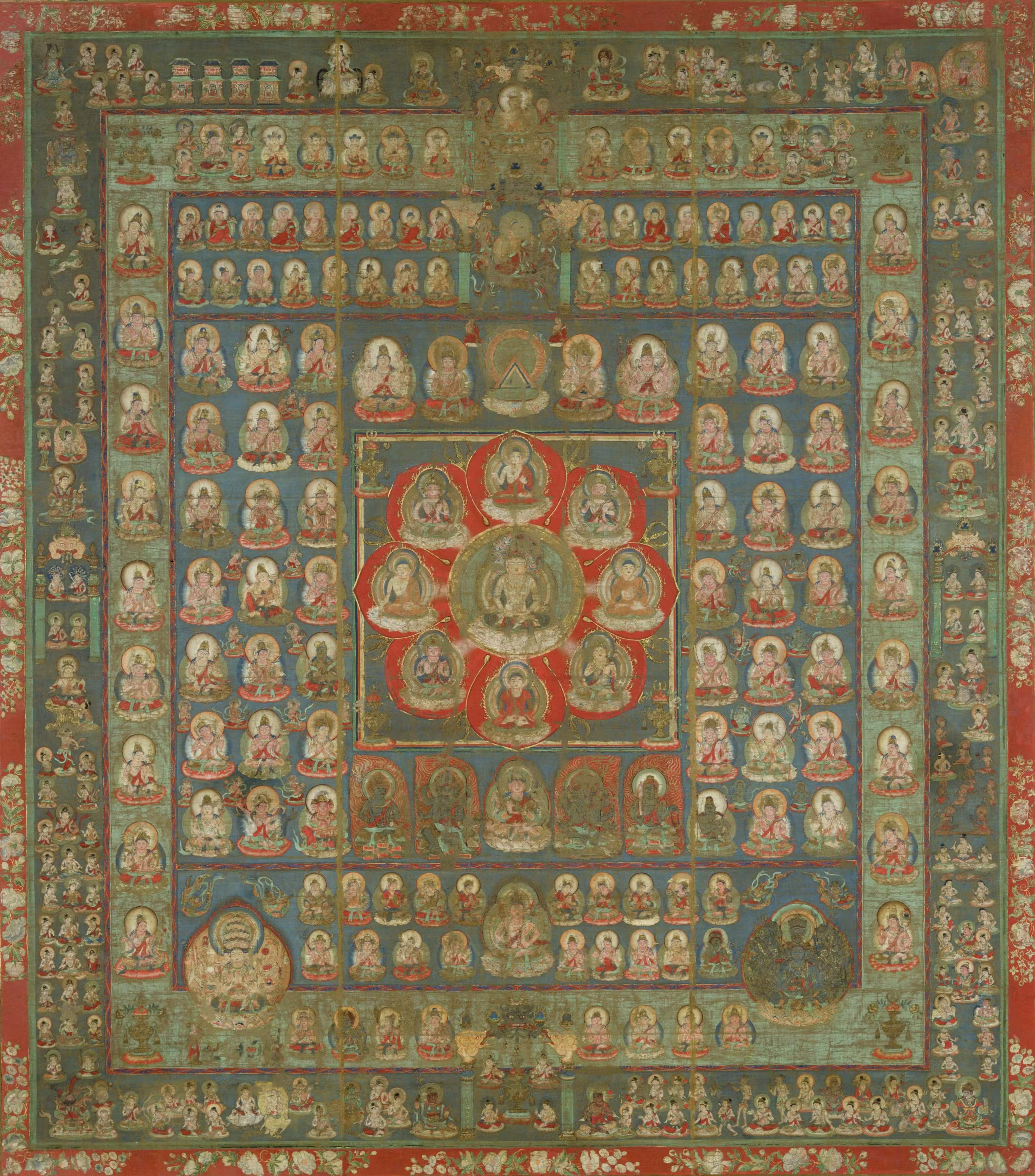 Womb Realm (garbhakosa-dhatu or taizōkai) mandala. Shingon tantric buddhist school, Heian period (794-1185), Tō-ji, Kyōto, Japan. National Treasure.